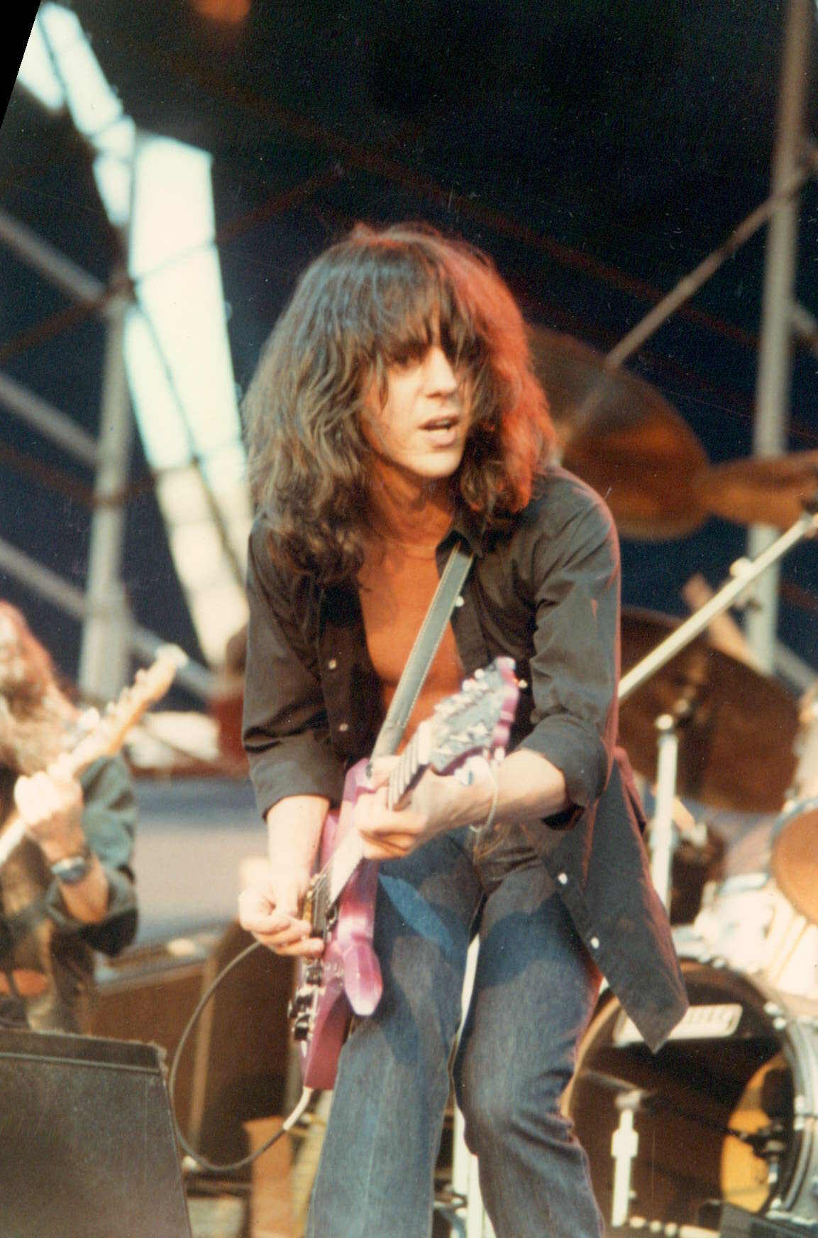 Craig Chaquico in 1981 as part of Jefferson Starship